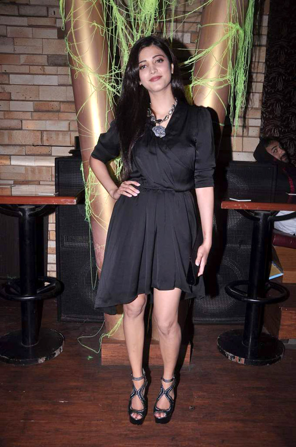 Shruti Haasan at MTV's show 'Rush' press meet